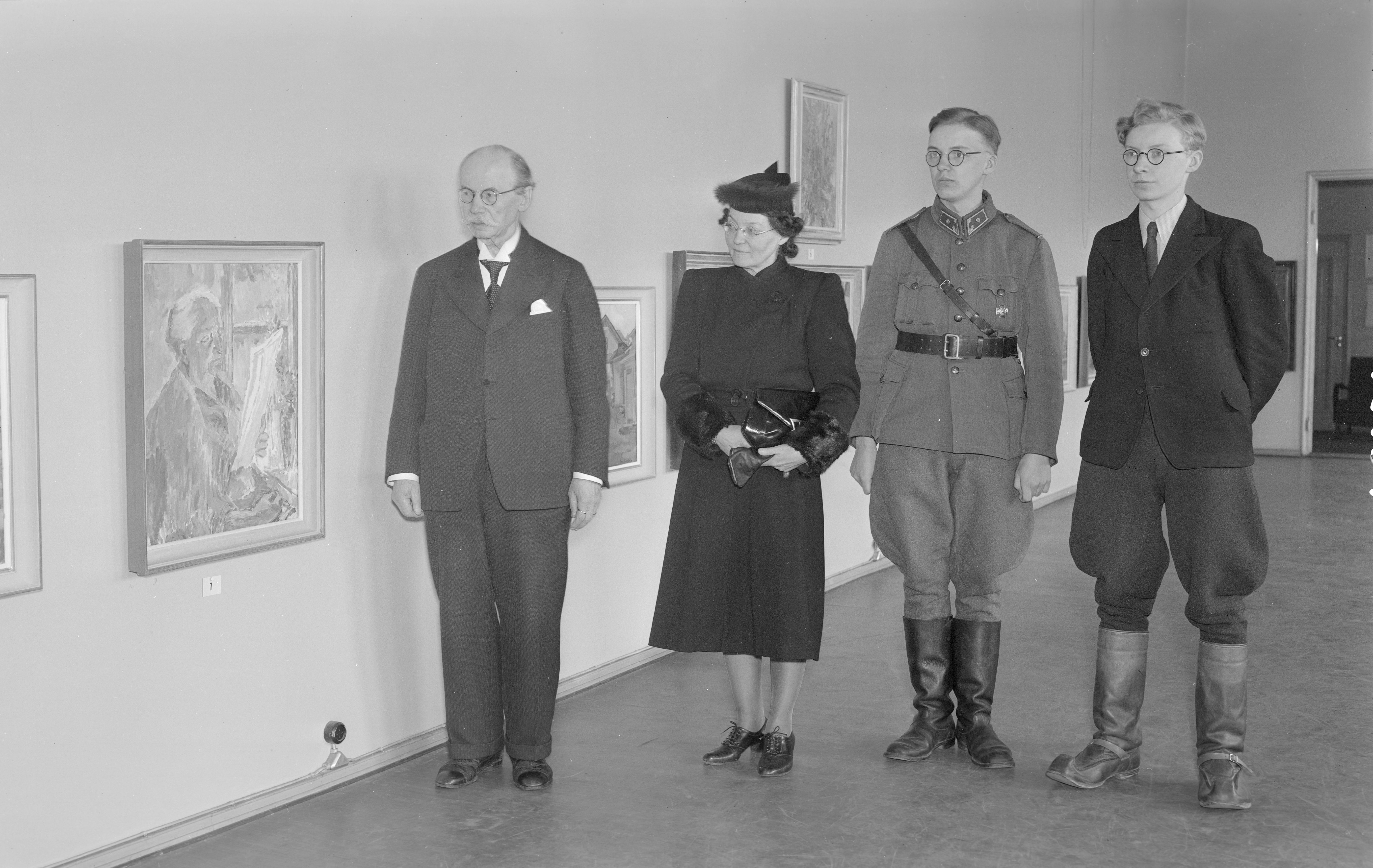 From left: Artist Inni Siegber's father Arthur J. Siegberg, Inni (Inkeri) Siegberg, her sons Aarno Ragnar and architect Arvid Ekelund. The painting on the wall is of Inni Siegberg's mother Hanna Victoria Siegberg